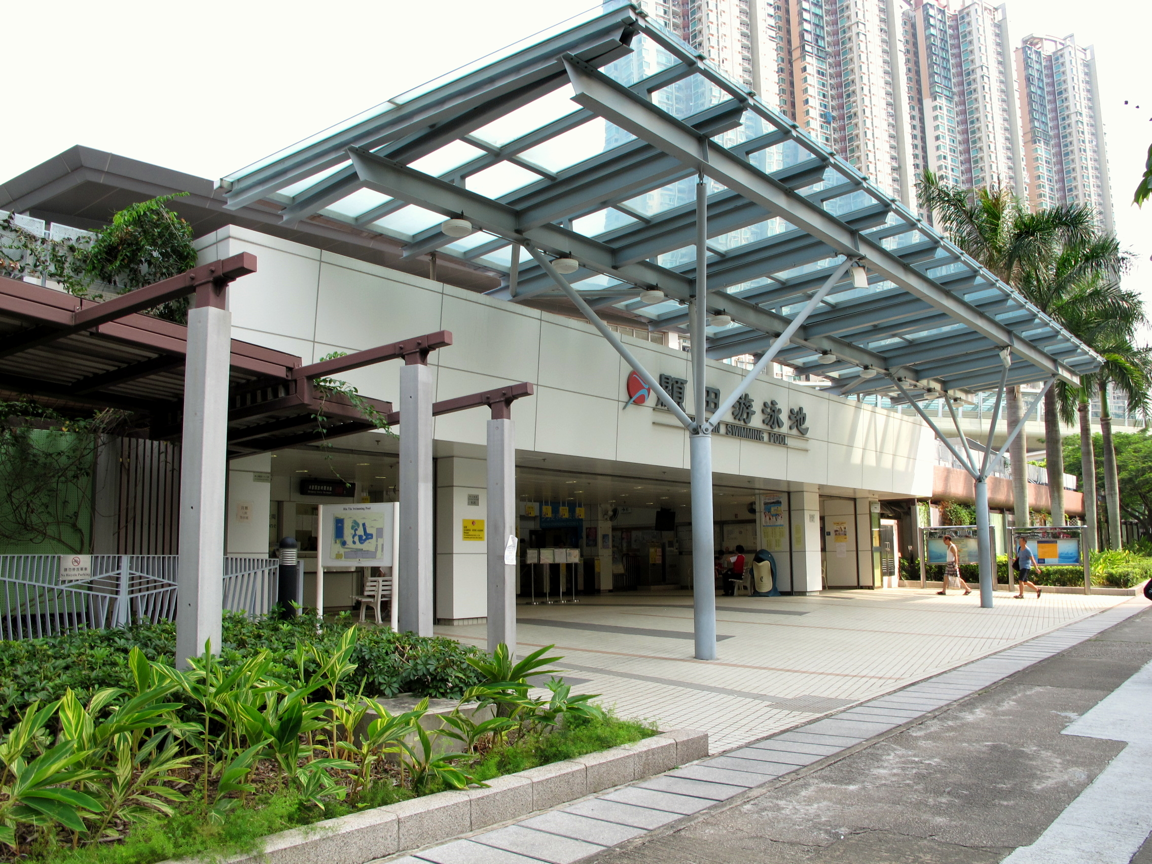 Hin Tin Swimming Pool 顯田游泳池